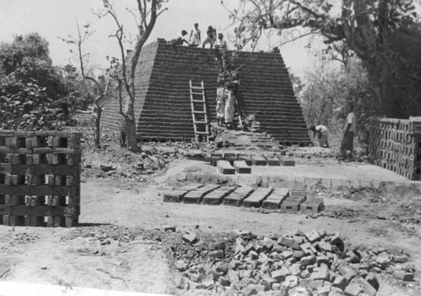 Caption: Now we make a bhata. This one is about 40x40 feet and contains about 60,000 twelve inch bricks stacked twenty feet high. It will burn about thirty tons of coal. Citation: Mennonite Board of Missions Photographs, 1898-1967. IV-10-007.2 Box 4 Folder 13. Mennonite Church USA Archives - Goshen. Goshen, Indiana.